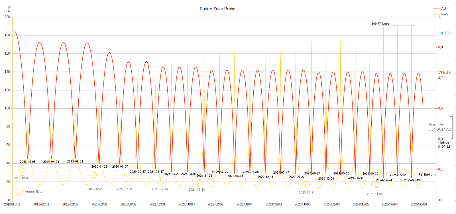 Timeline Parker Solar Probe velocity and distance in AU